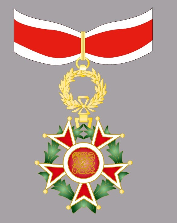 Order of the Brilliant Star of Zanzibar II grade Commander neck badge